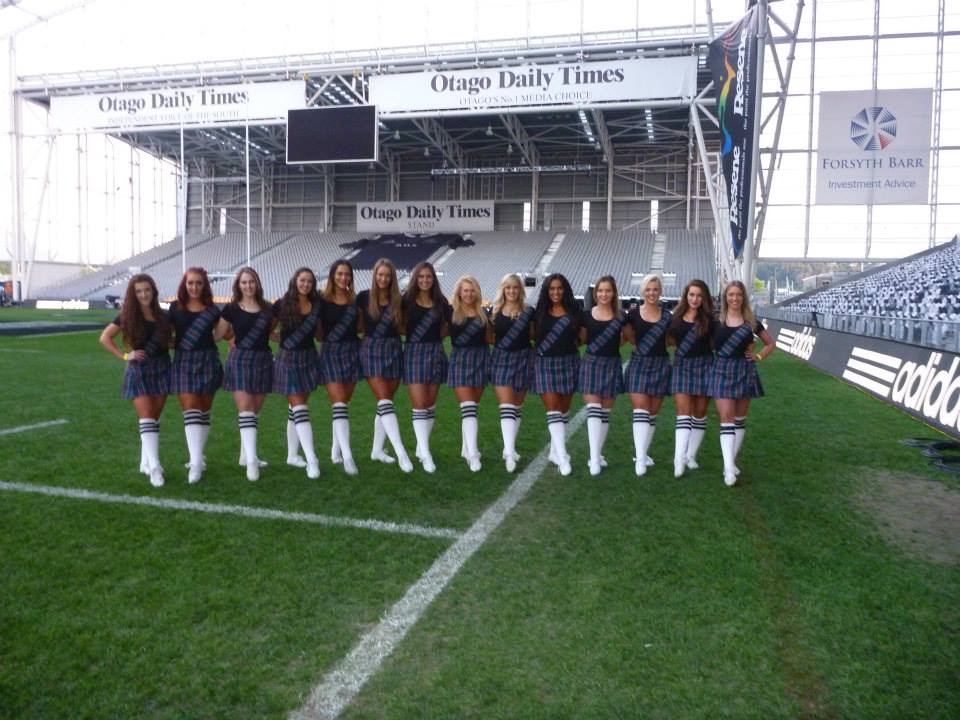 Bledisloe Cup practice, Otago Dancers group for an All Blacks game, at Forsyth Barr Stadium.